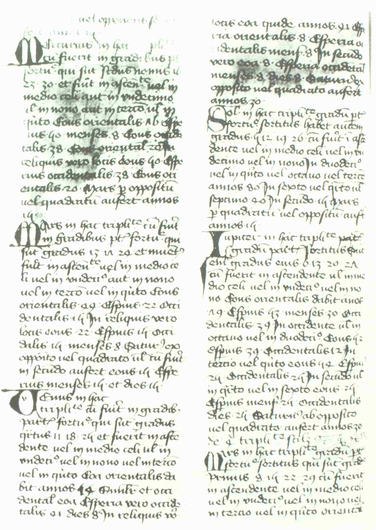 A page of a manuscript of the Hermetic treatise Liber Hermetis Trismegisti (De triginta sex decanis). Manuscript London, British Library, Harley 3731, fol. 46v.